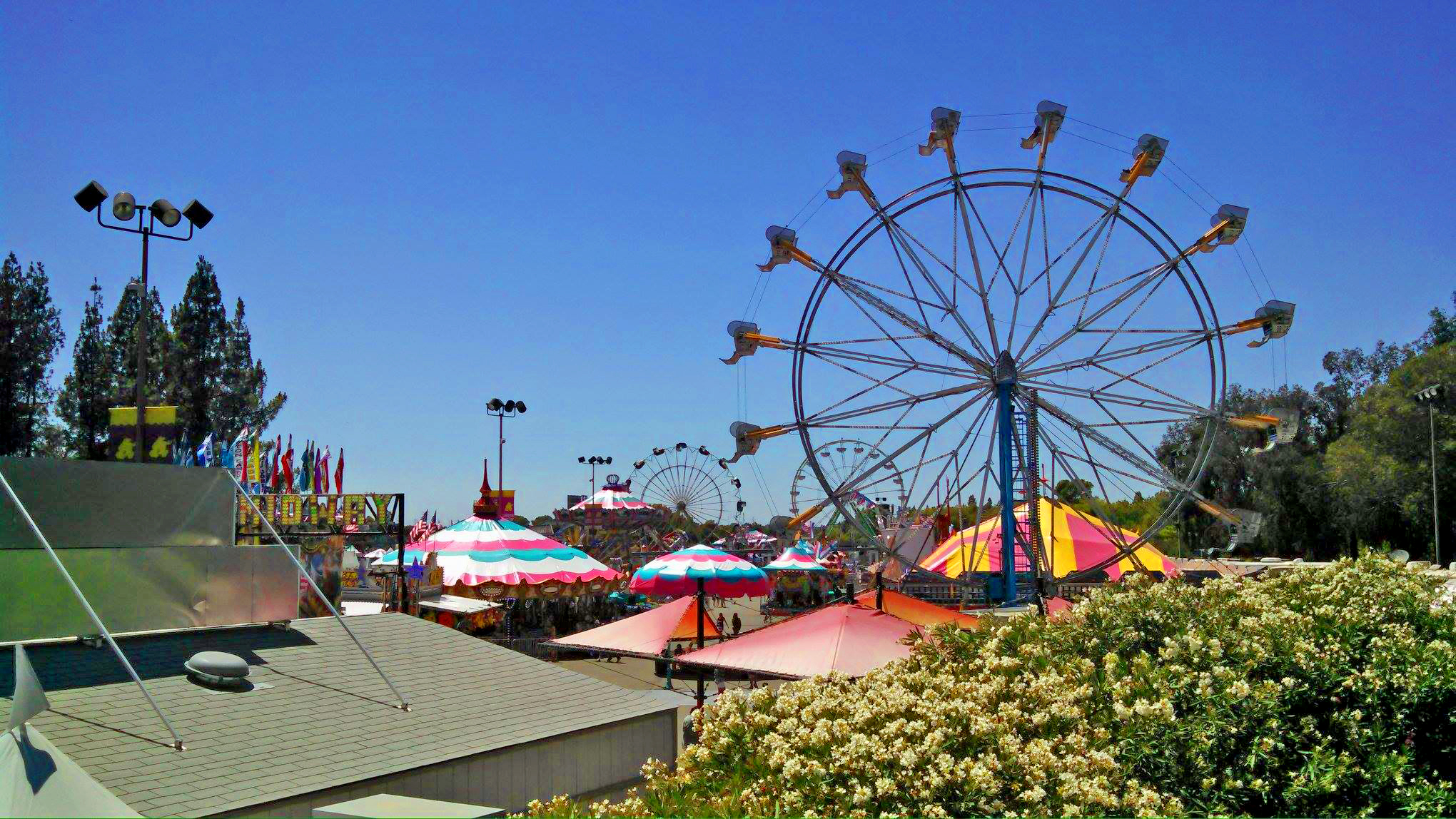 View of the carnival rides at the 2014 California State Fair